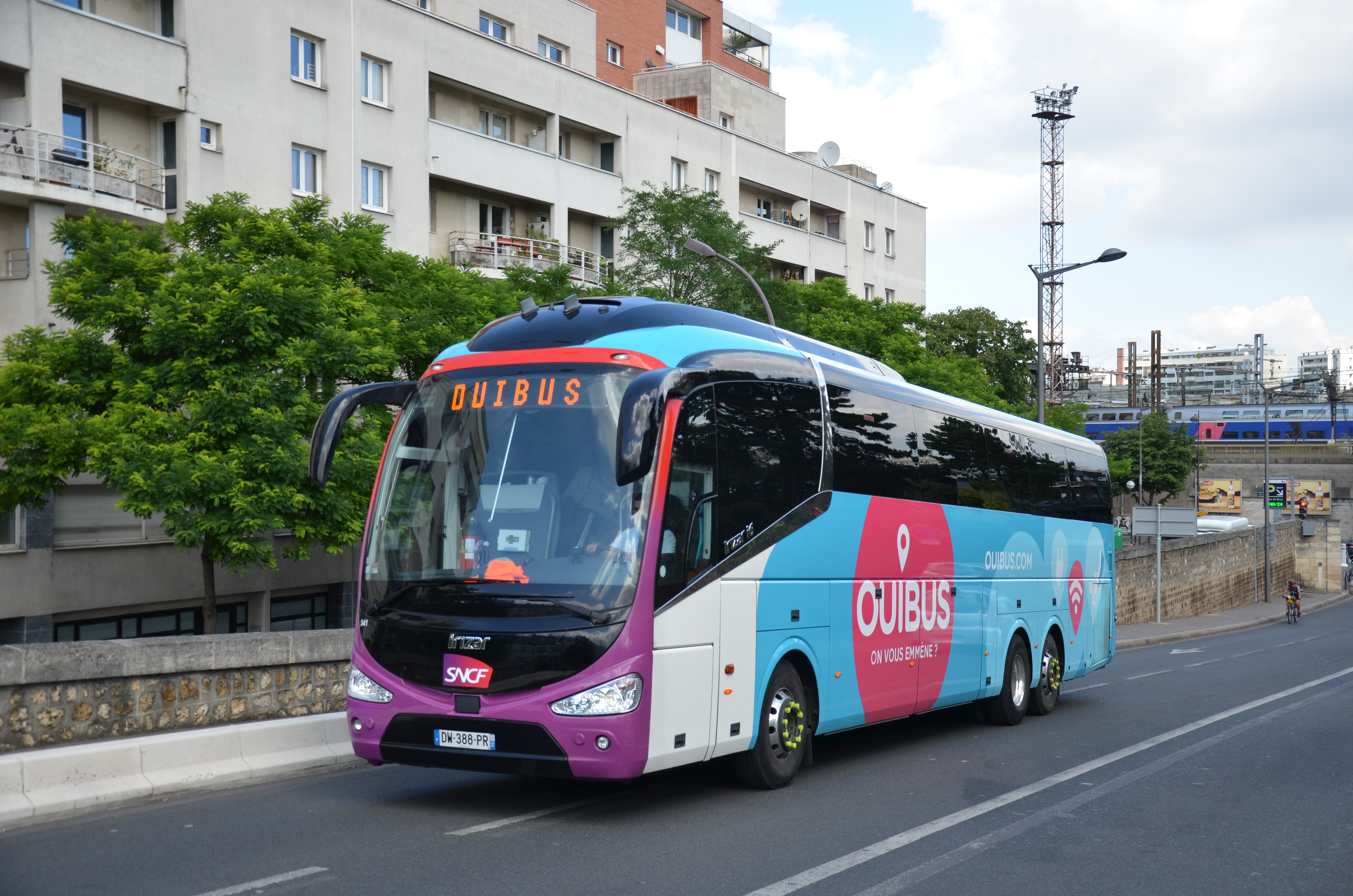 Ouibus coach at Paris-Bercy terminal.